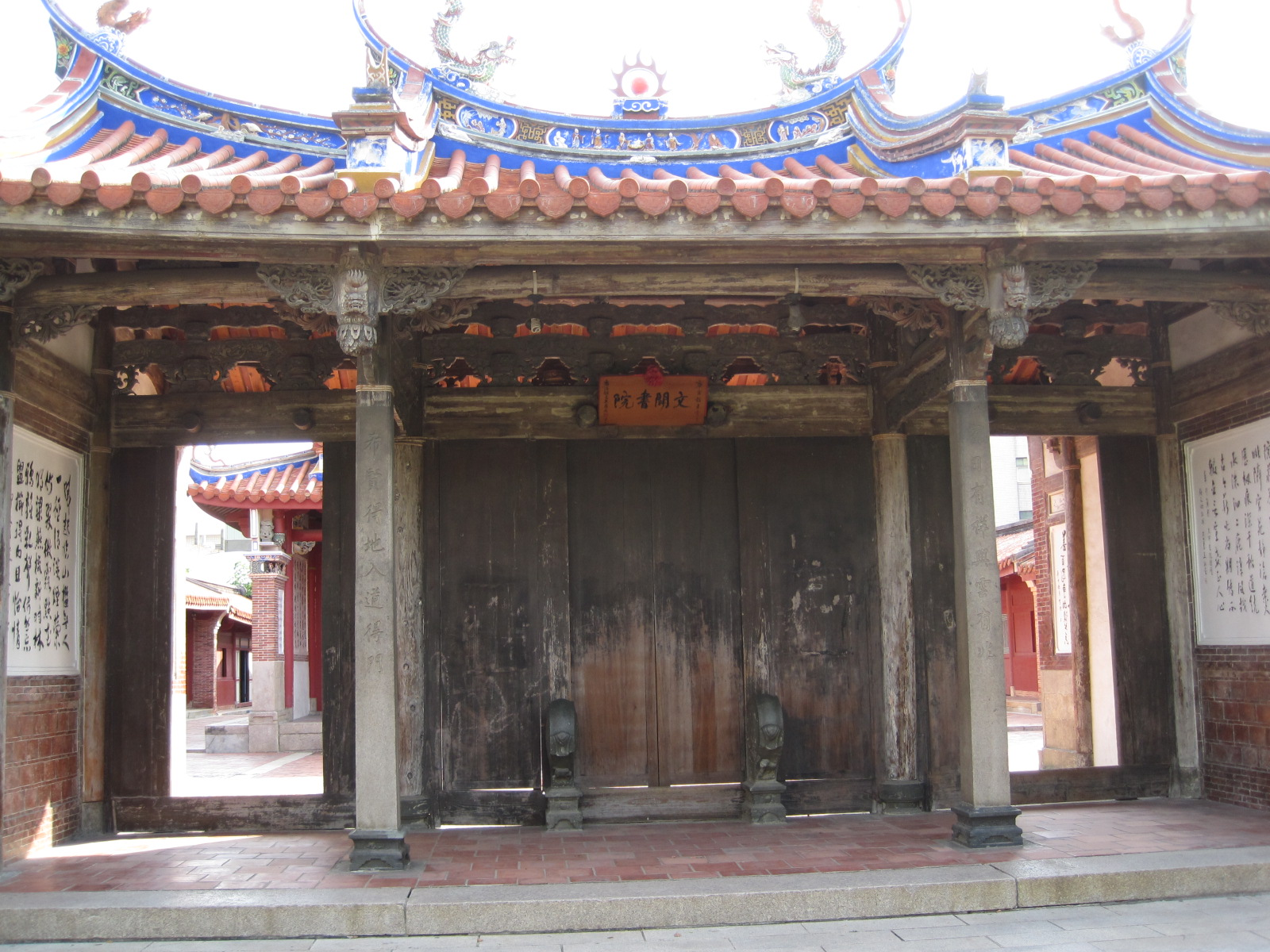 Wen Kai Academy